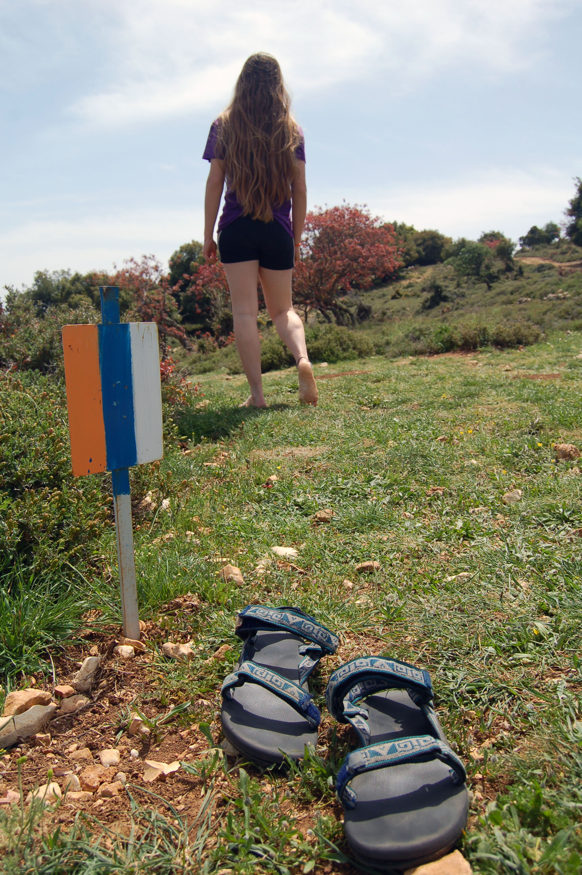 Israel National Trail, Meron Wadi.